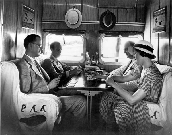 Local call number: Rc12775 Title: [Interior view of Sikorsky S-40 plane: Miami, Florida] Publication info: 1931 Physical descrip: 1 photoprint: b&w; 8 x 10 in. Series Title: (Reference collection) General Note: The Sikorsky S-40 was placed in operation by Pan American World Airways in 1931. The S-40s were the first four-engine aircrafts to be regularly used in commercial air service. Repository: State Library and Archives of Florida, 500 S. Bronough St., Tallahassee, FL 32399-0250 USA. Contact: 850.245.6700. Persistent URL: [1]